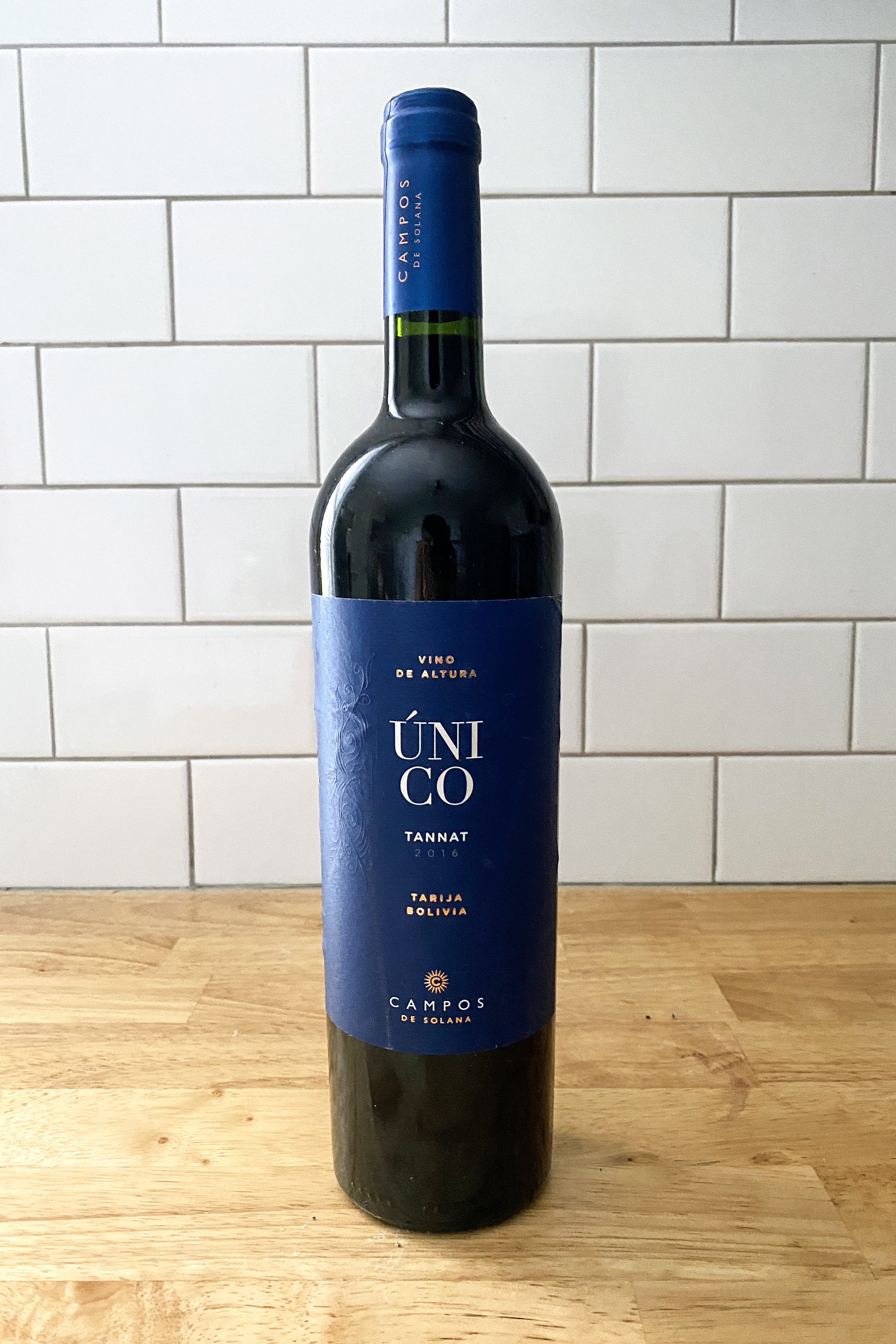 Tannat wine from Bolivia's Tarija region